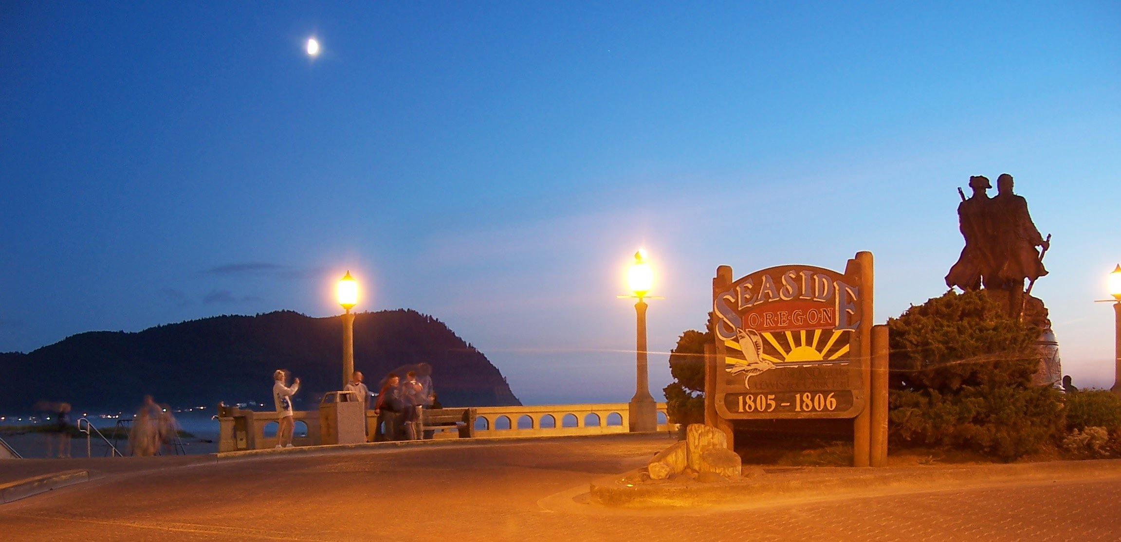 Seaside, Oregon, after sunset. 2 seconds exposure. An SUV drove round the statuary during exposure (most probably speeding :-))